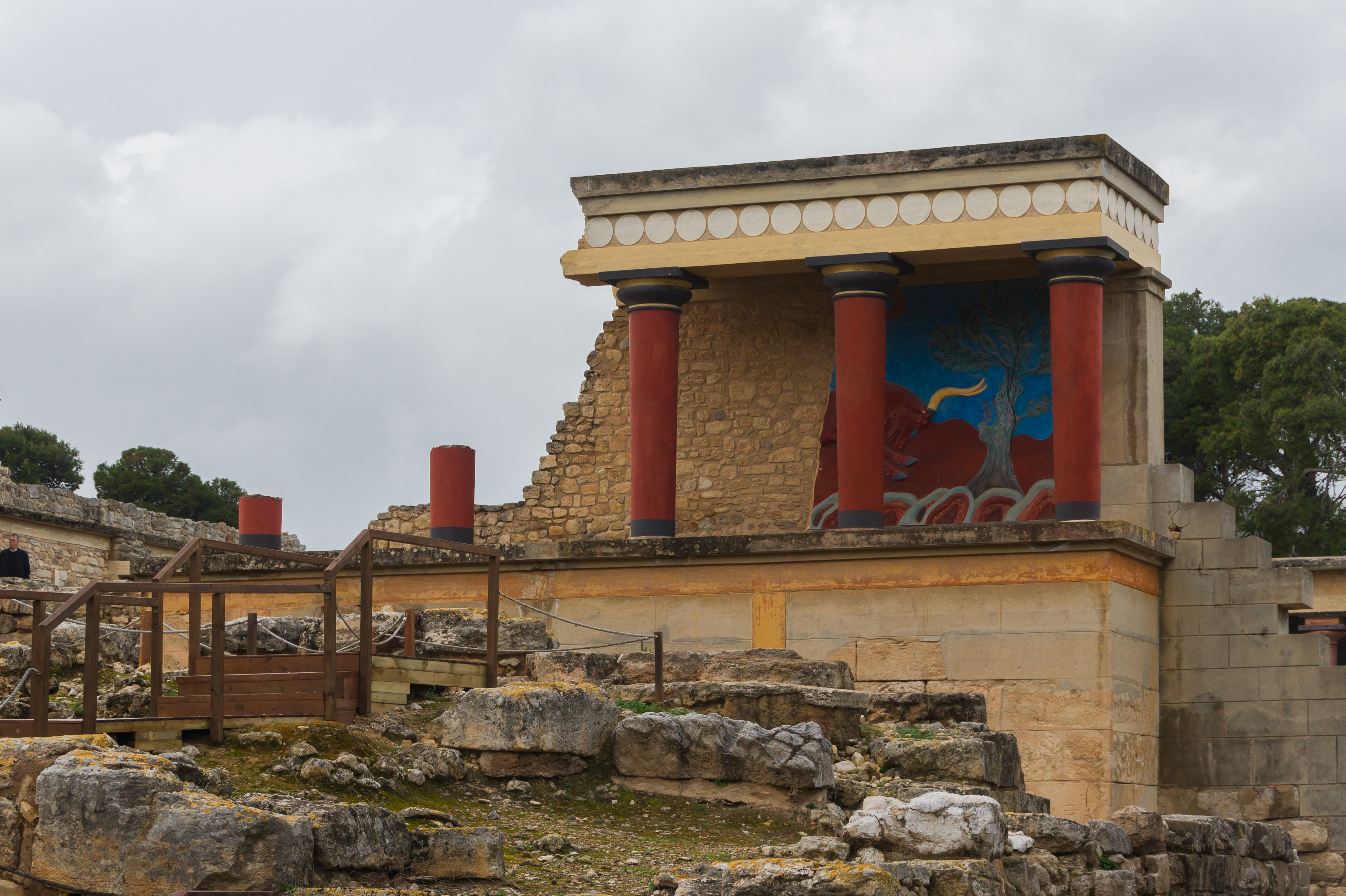 The Knossos Palace north entrance. Crete, Greece.